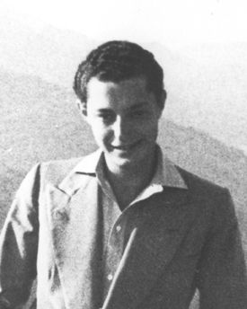 Gianni Agnelli